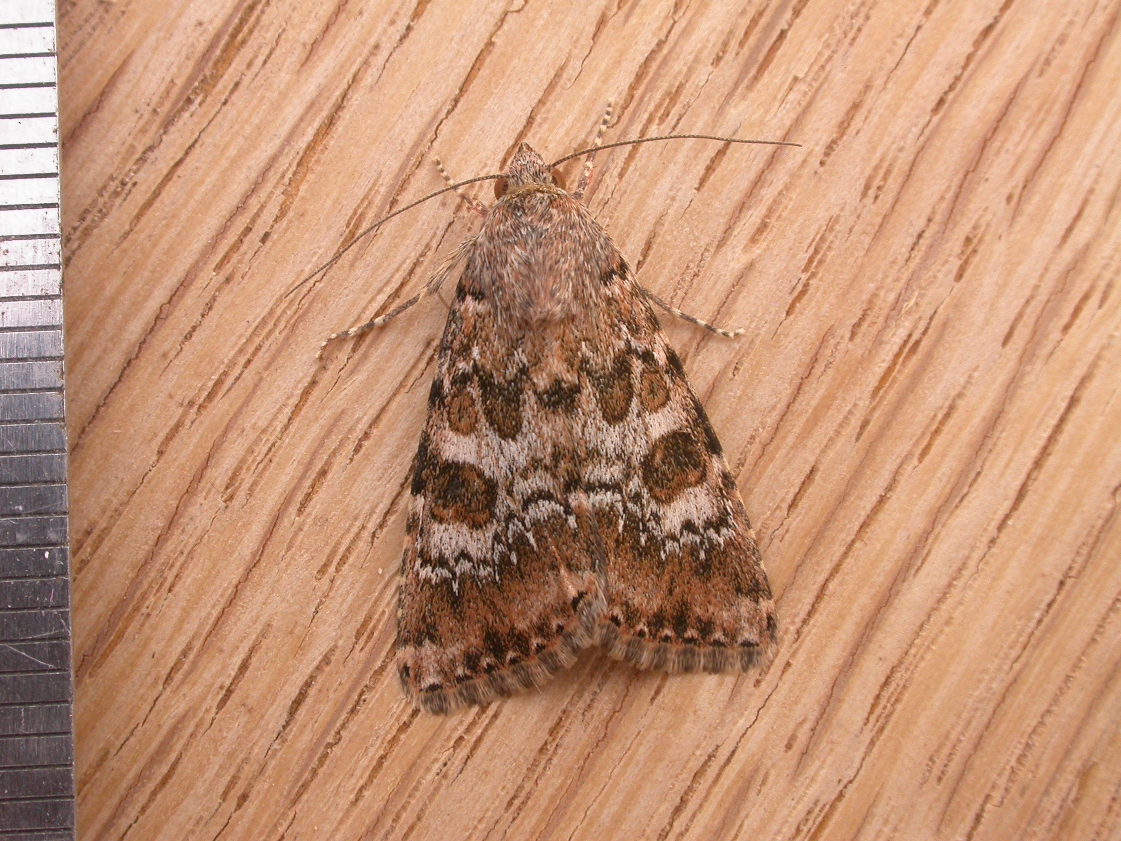 Heliothis punctifera Walker, 1857, to MV light, Aranda, ACT, 20/21 March 2010